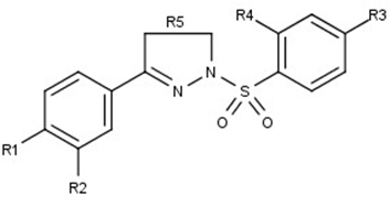 Arylpyrazolines and aryldiazepines as PR modulators